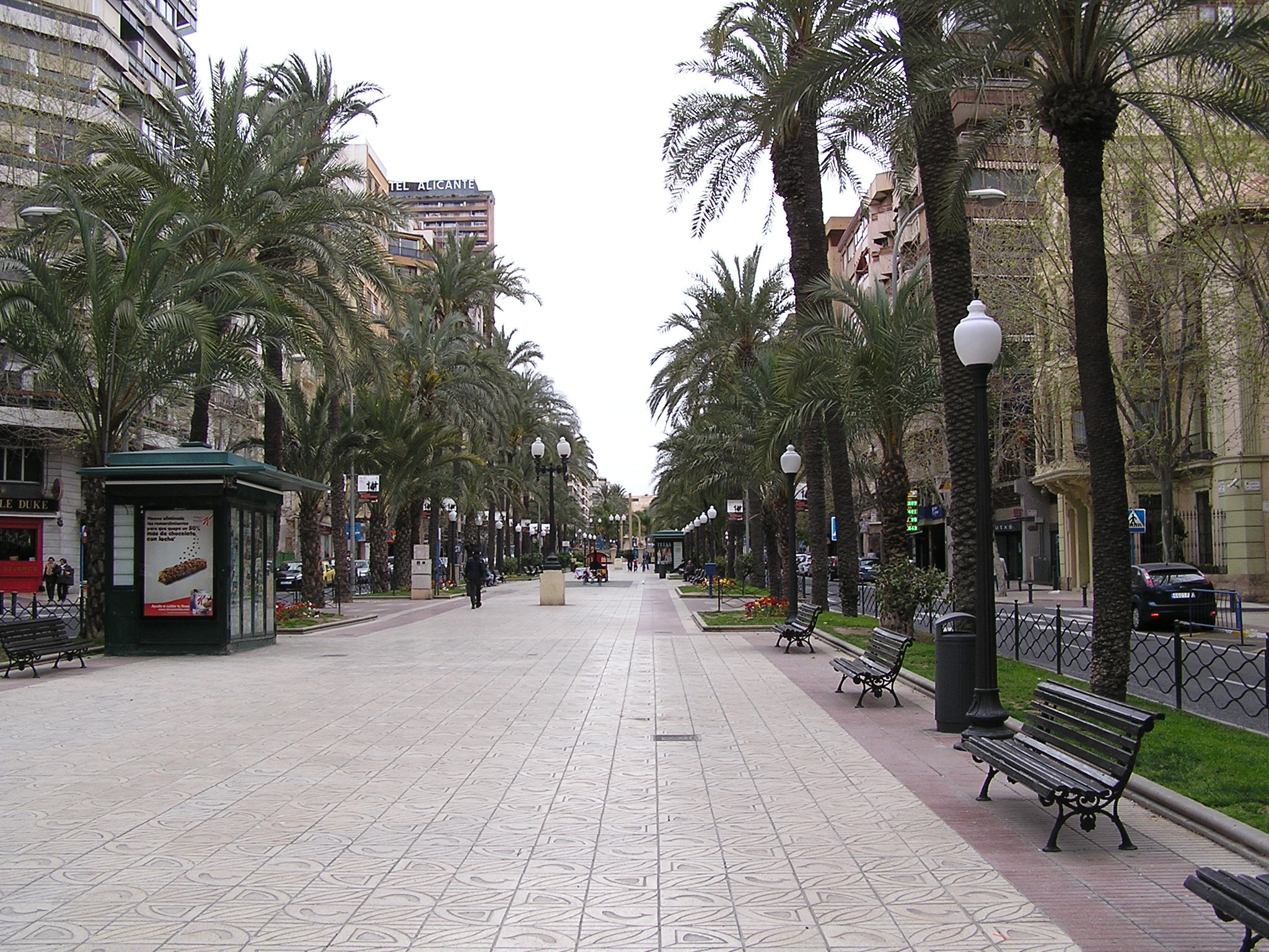 Alicante, Avenida Doctor Gadea